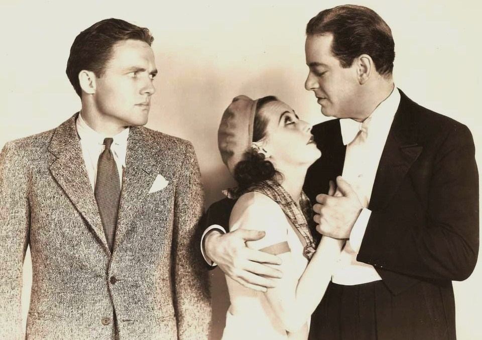 Left to right: Frank Albertson, Sally O'Neil, and Alan Dinehart in the American comedy film The Brat (1931) - publicity still (cropped).